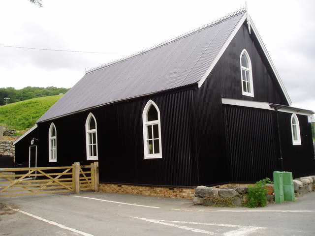 Ganllwyd Village Hall. One of Wales' few remaining mission halls at Ganllwyd. The hall has just been reopened after restoration to provide a social centre for the village.